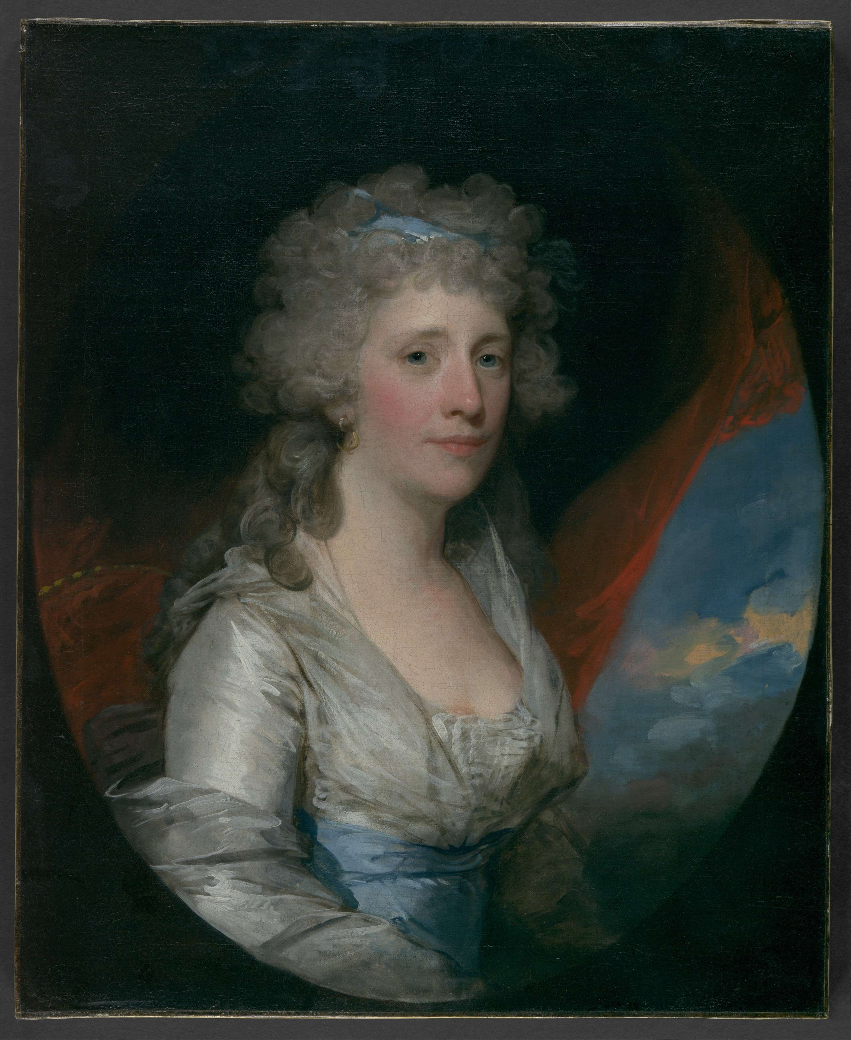 Mrs. Joseph Anthony Jr. (Henrietta Hillegas) Artist: Gilbert Stuart (American, North Kingston, Rhode Island 1755–1828 Boston, Massachusetts) Date: ca. 1795–98 Medium: Oil on canvas Dimensions: 30 x 23 3/8 in. (76.2 x 59.4 cm) Classification: Paintings Credit Line: Rogers Fund, 1905